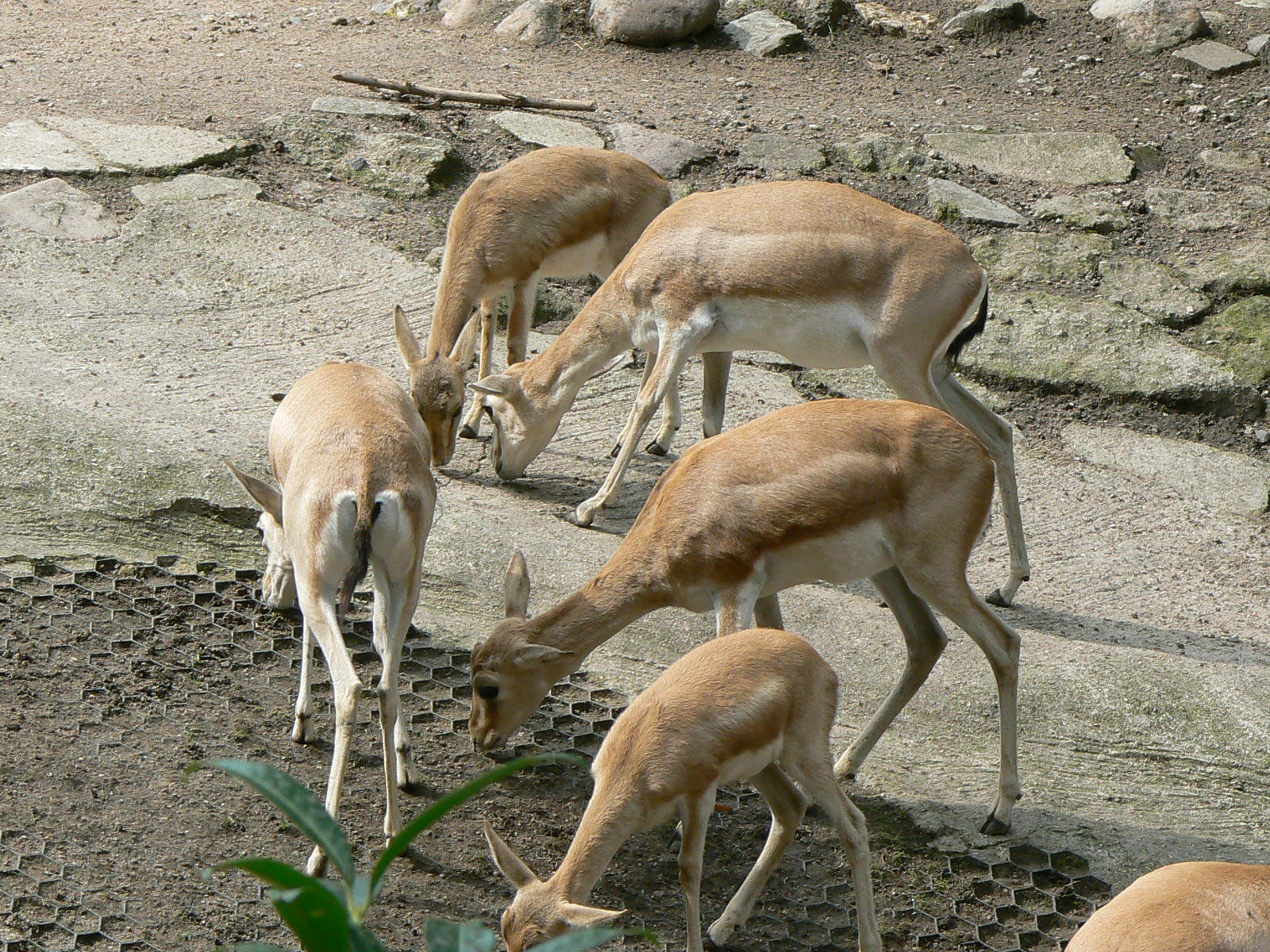 gazellas on the zoo of hamburg